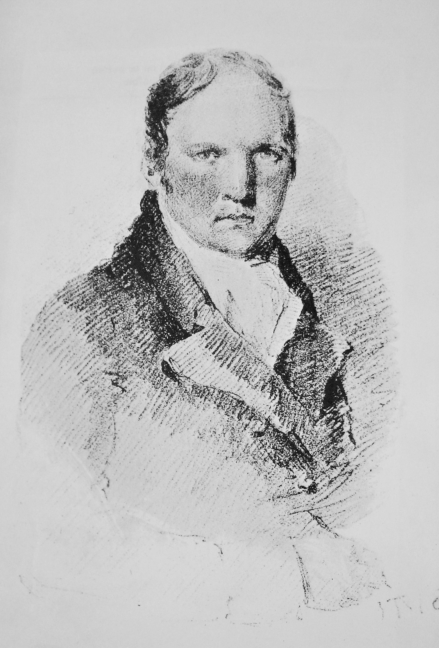 A portrait of the water-colourist John Thurtle (1777-1839)